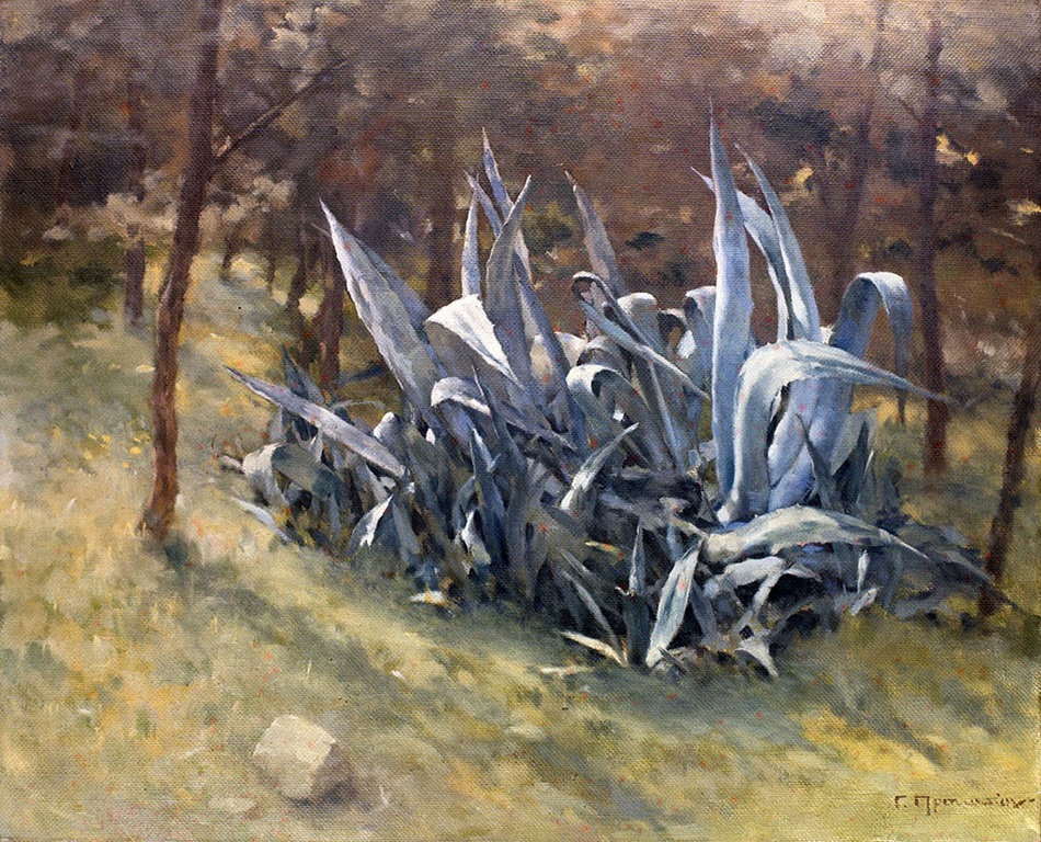 Agave